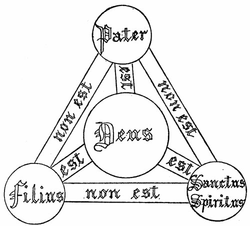 A version of the Shield of the Trinity diagram (or "Trinity Triangle" as it's called in the source) found in an 1896 book. For translation and discussion, see article Shield of the Trinity. At lower right, the word order "Sanctus Spiritus" is used in place of the more usual "Spiritus Sanctus"...